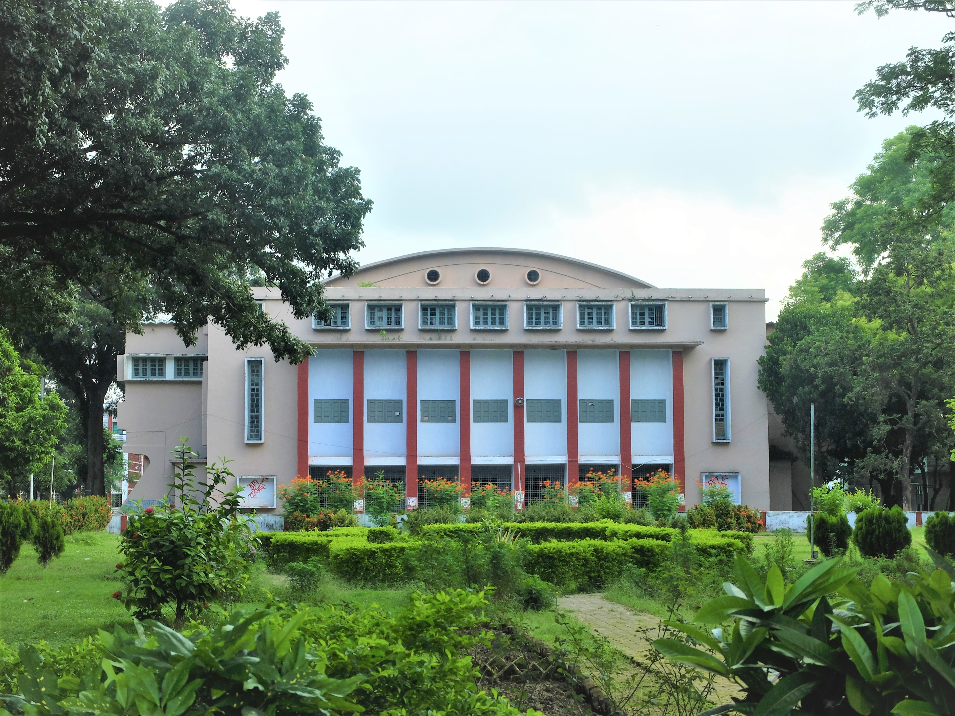 Kazi Nazrul Islam auditorium, Rajshahi University